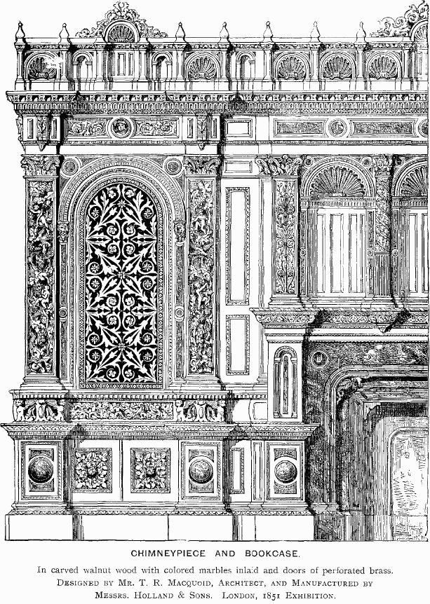 Chimneypiece and Bookcase. In carved walnut wood with colored marbles inlaid and doors of perforated brass. Designed By Mr. T. R. Macquoid, Architect, and manufactured by Messrs. Holland & Sons. London, 1851 Exhibition.